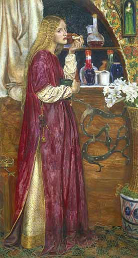 Photograph of The Queen was in the Parlour, Eating Bread and Honey, 1860. Oil on panel, by Valentine Cameron Prinsep. In the public domain.